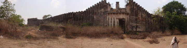 Panoramic view of Entrance to the Rajapet fort